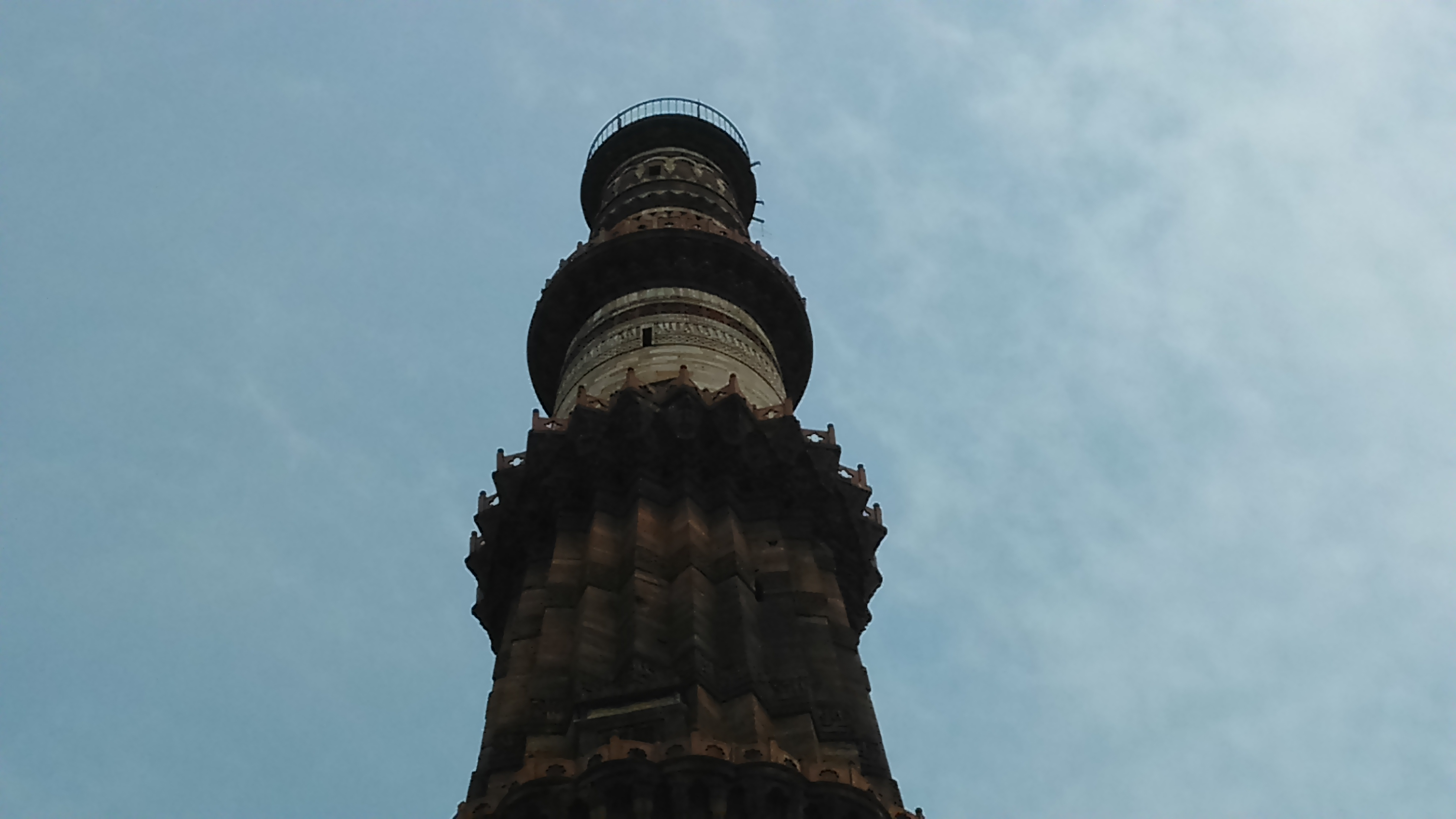 The top two storeys were reconstructed in marble by Sikander Lodi